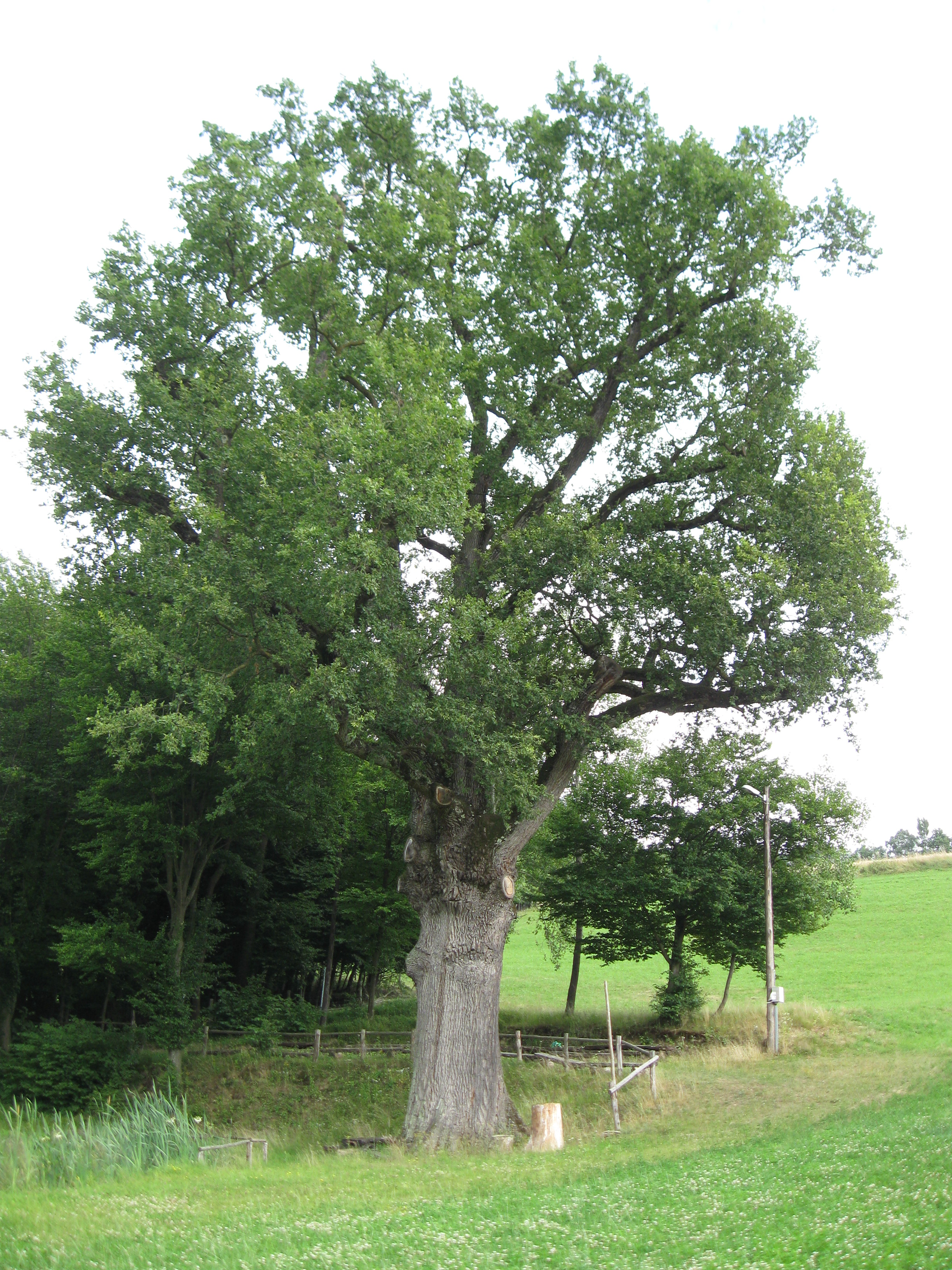 A fat oak in Župetinci.